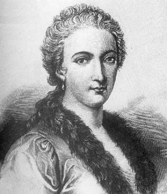 Portrait of Maria Gaetana Agnesi (1718-1799), Italian mathematician